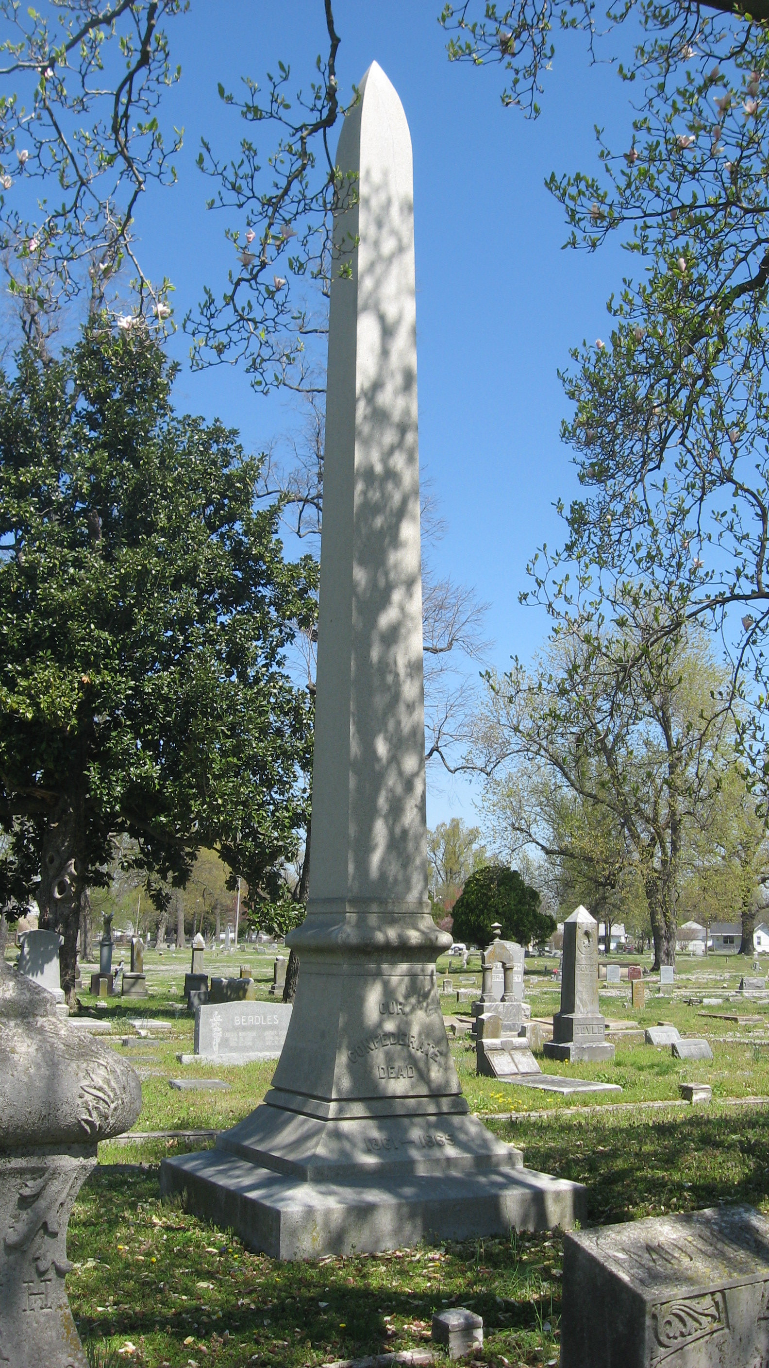 View from the south of the Confederate Monument in Paducah, located in the western portion of Oak Grove Cemetery in Paducah, Kentucky, United States. Placed in 1907, it is listed on the National Register of Historic Places.